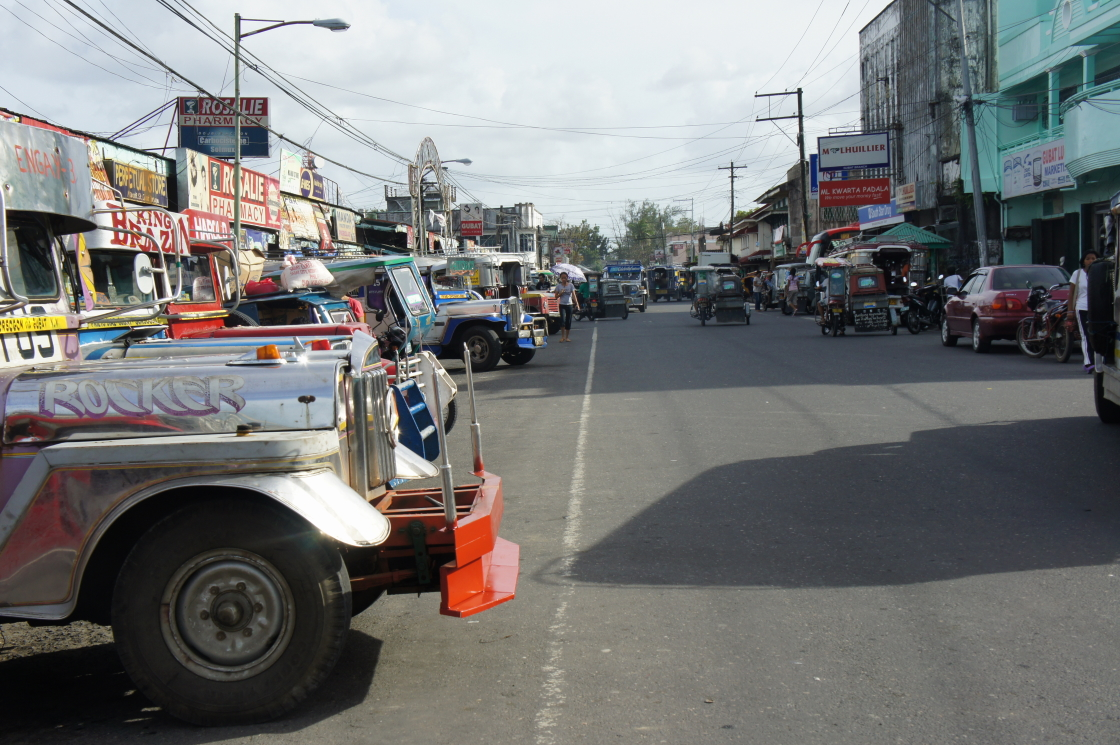 Gubat town center, Sorsogon, Philippines. Jeepneys to Bulusan, Barcelona and Prieto Diaz line this street of Gubat commercial area.